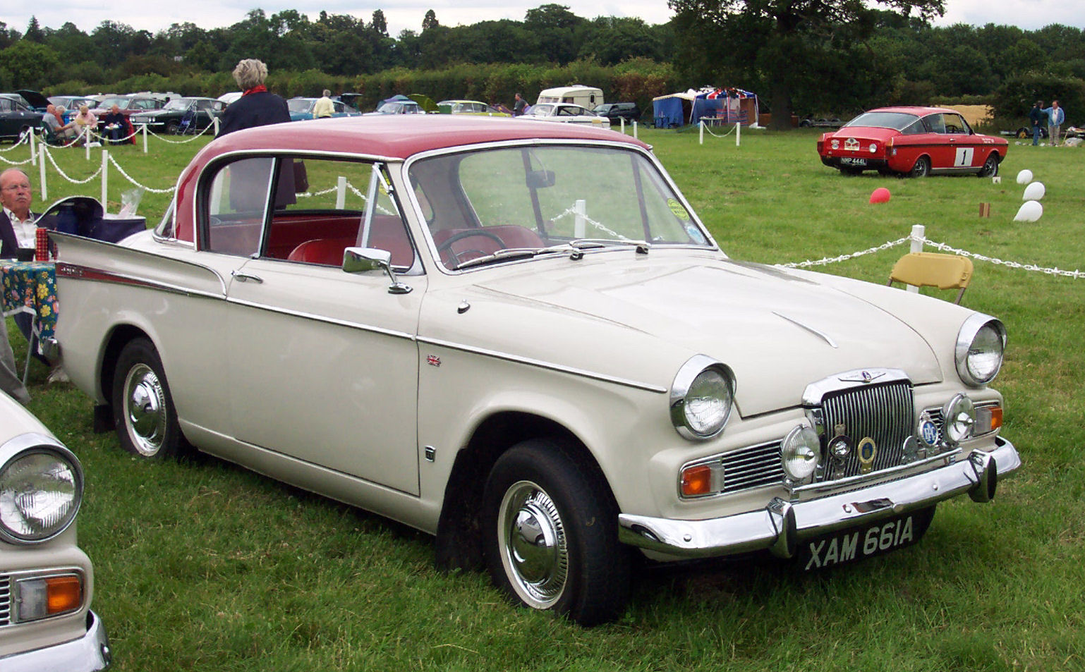 Summary Sunbeam Rapier Series 4. Picture by David Parrott.